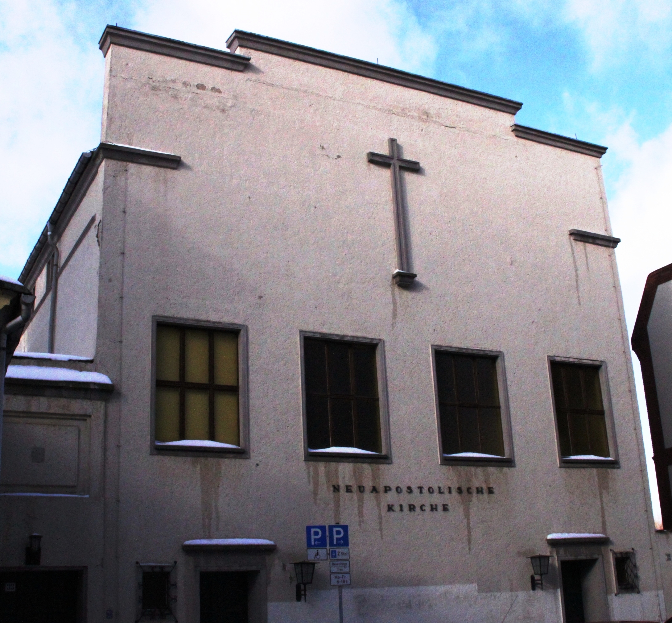 The former Tattersall next to the Neustadt of Brandenburg an der Havel was used as a church since the 30th of 20th. century.